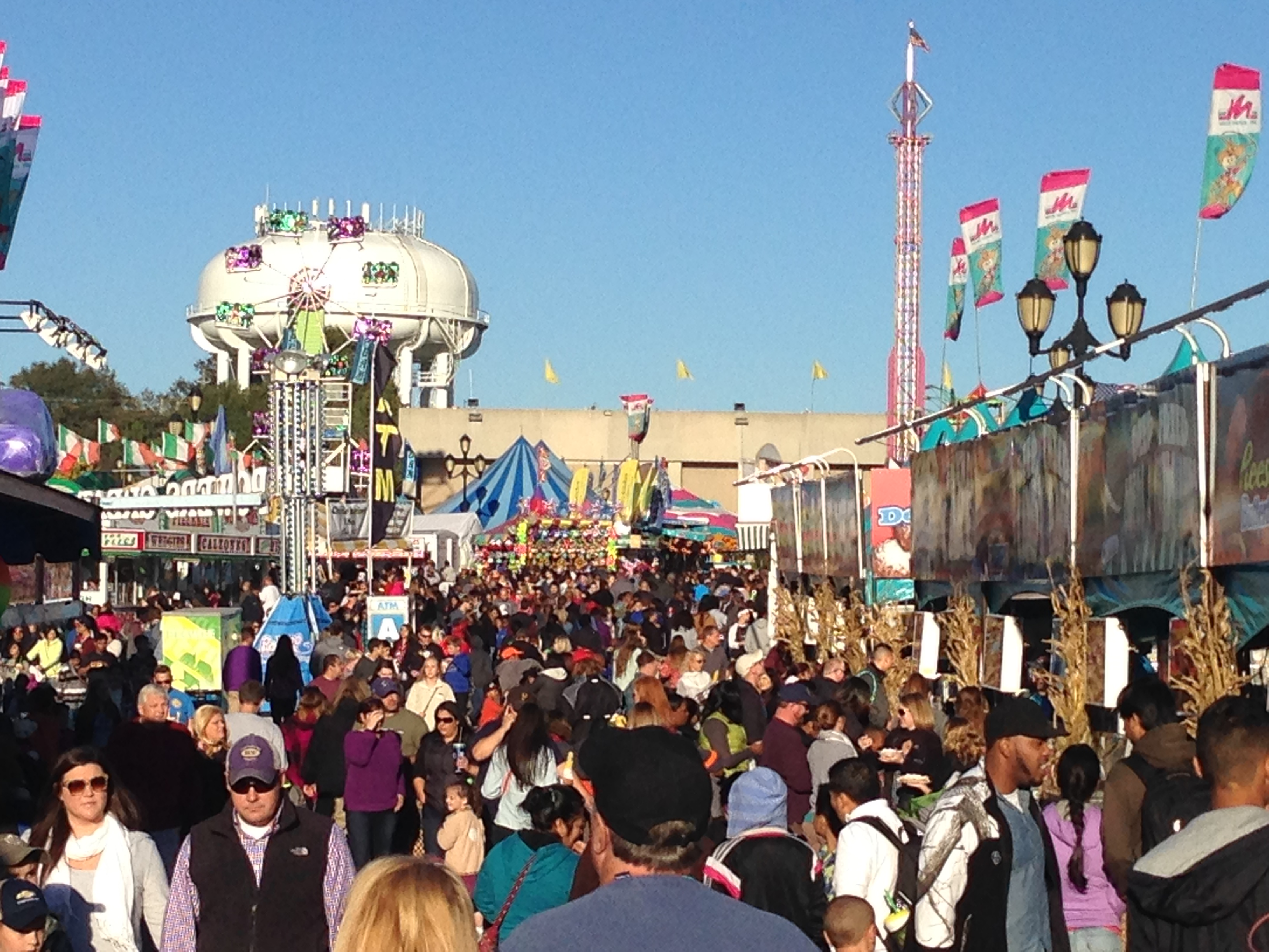 People walking around the North Carolina state fair in 2015.